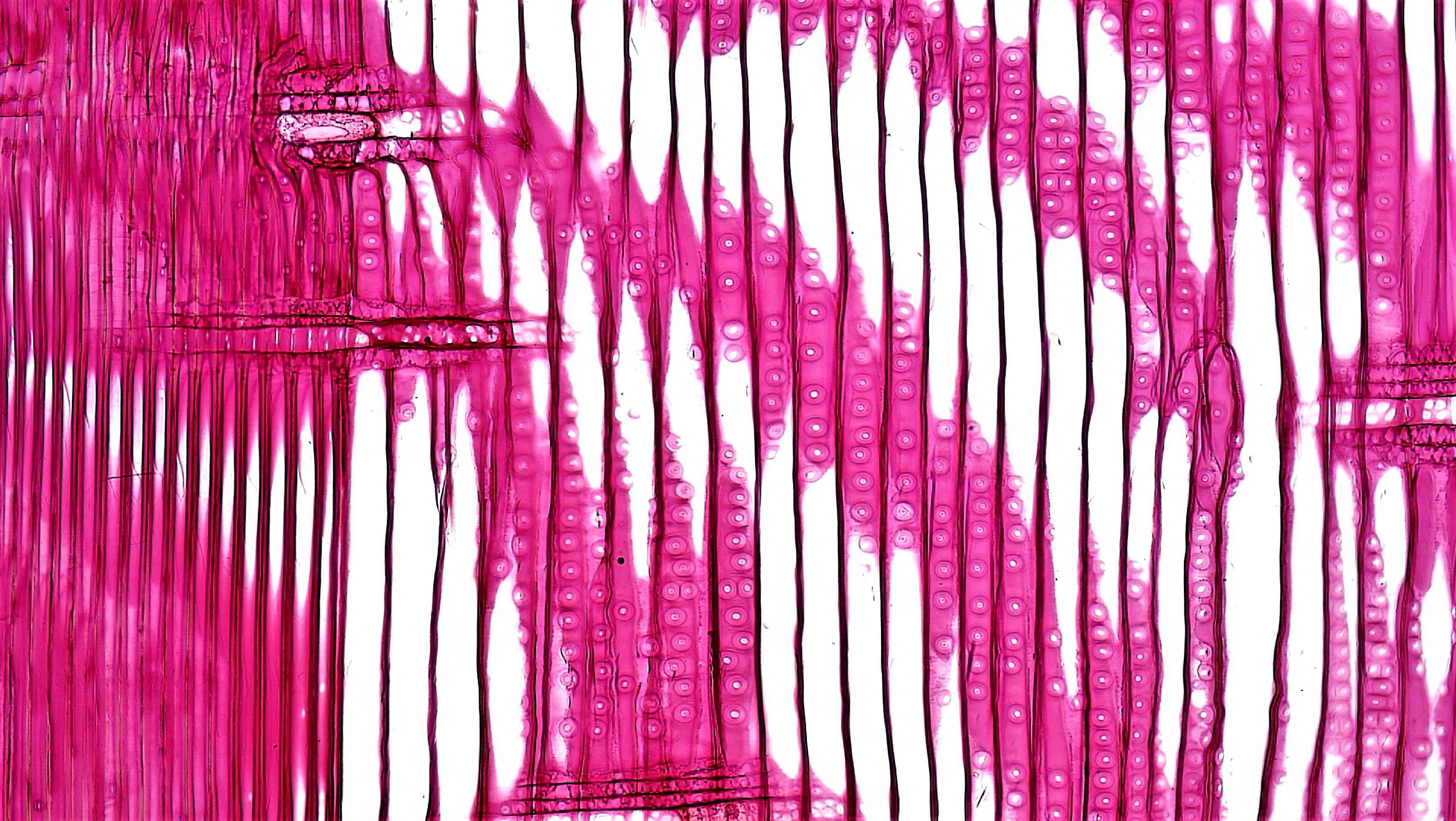 tangential section: Pinus stem magnification: 100x iron-alum hematoxylin and safranin stain Gymnosperms like Pinus rely entirely on tracheids for water flow and mechanical support. True xylem vessels and wood parenchyma are lacking. While fibers are generally absent older stems may contain some fiber tracheids. The uniform wood of Pinus consists almost entirely of longitudinally oriented bands of narrow, pale staining tracheids interrupted by short bands of horizontally oriented xylem rays. Xylem rays, usually one cell thick and a few cells high, are composed of clear, thin walled parenchyma cells. The lumen of many tracheids is crossed by branched trabeculae. Tracheid side walls contain large circular bordered pits that function to move water from tracheid to tracheid while preventing air flow from embolized tracheids. The membrane of each bordered pit is marked by a pale, thin, porous outer margo and a thicker, darker, inner torus. Large horizontally oriented resin ducts are lined with living secretory parenchyma that produce resins and many toxic terpenes including turpentines.